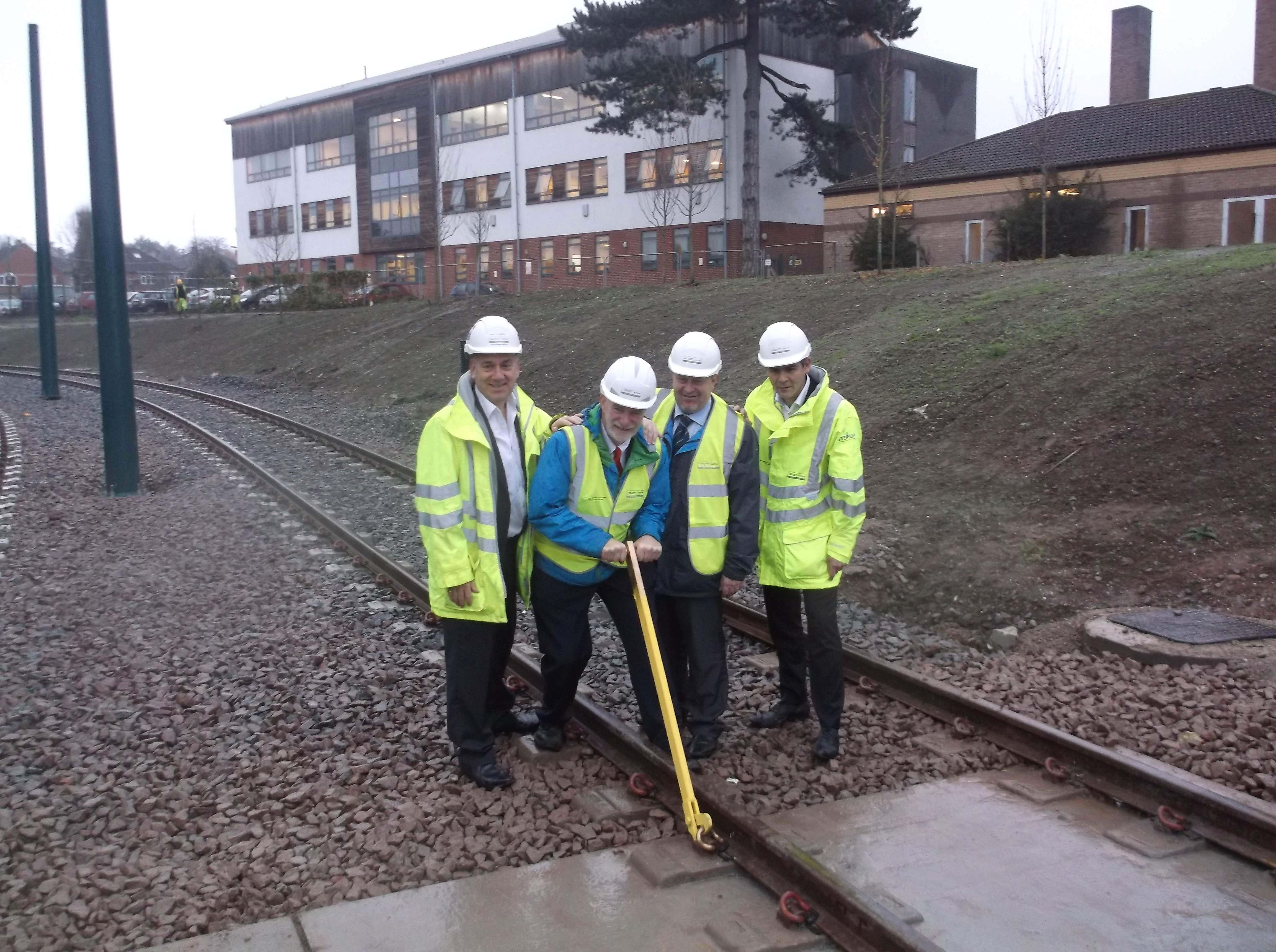 Nottingham Express Transit tramway Golden Spike ceremony close to Central College Nottingham and the headquarters of Barton Transport in Chilwell on 27 November 2014 shortly after 14:00 UTC. Broxtowe Councillor Steve Barber installed the final Golden Pandrol clip to mark completion of the trackwork on the new line to Beeston and Chilwell. Photograph taken looking due north, with buildings of Central College Nottingham in the background. The golden clip was removed for safe-keeping after the ceremony and a regular Pandrol clip re-installed in its place. Left-to-right are Paul Harris (Taylor Woodrow Alstom), Cllr Steve Barber, Phil Hewitt (Tram Link Nottingham), Didier Marcillou (Alstom).[1]